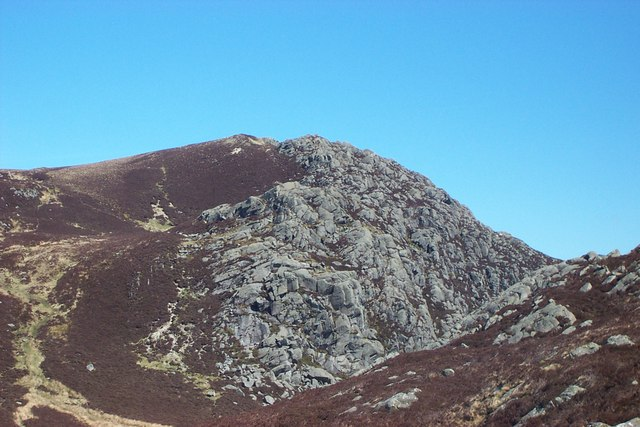 Craiglwyn Close Up. Craiglwyn from near Moel Defaid at grid reference SH 73015 60745.